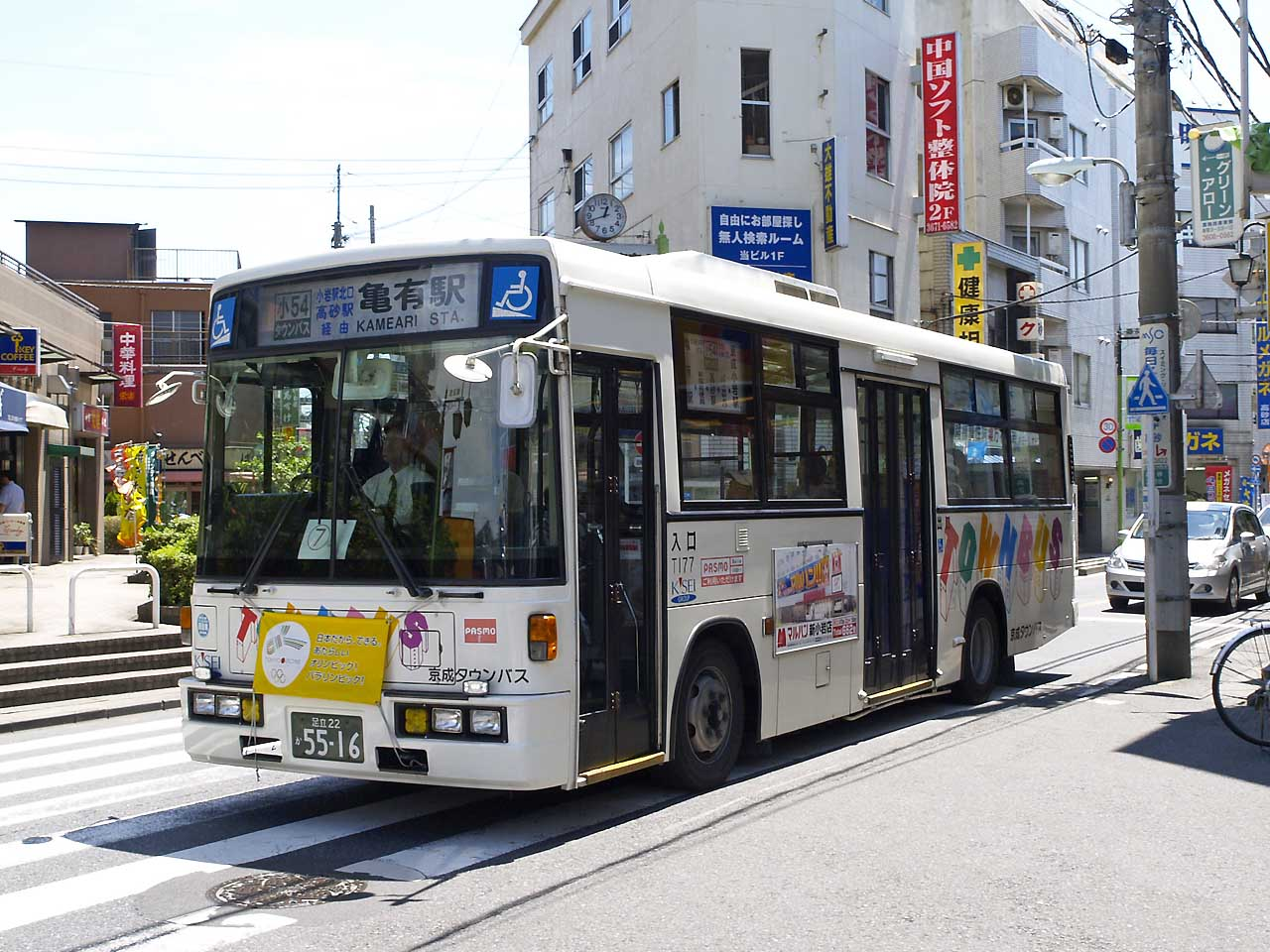 Fleet of Keisei Town Bus, operated in Koiwa 54 route. Model: Isuzu Journey K KC-LR333 Body: Fuji Heavy Industries License plate: TKA22 KA5516 Place: neighbour of Keisei Takasago station, Katsushika ward, Tokyo Japan